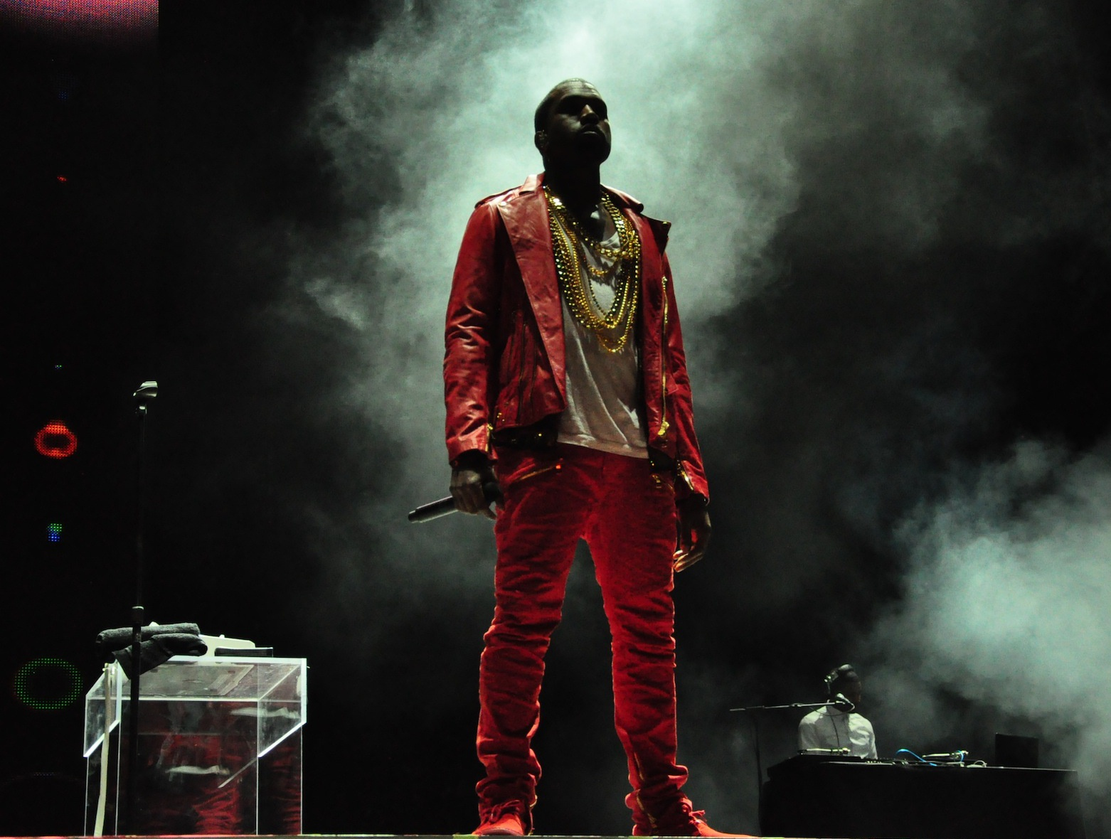 Kanye West performing at Lollapalooza on April 3, 2011 in Chile.